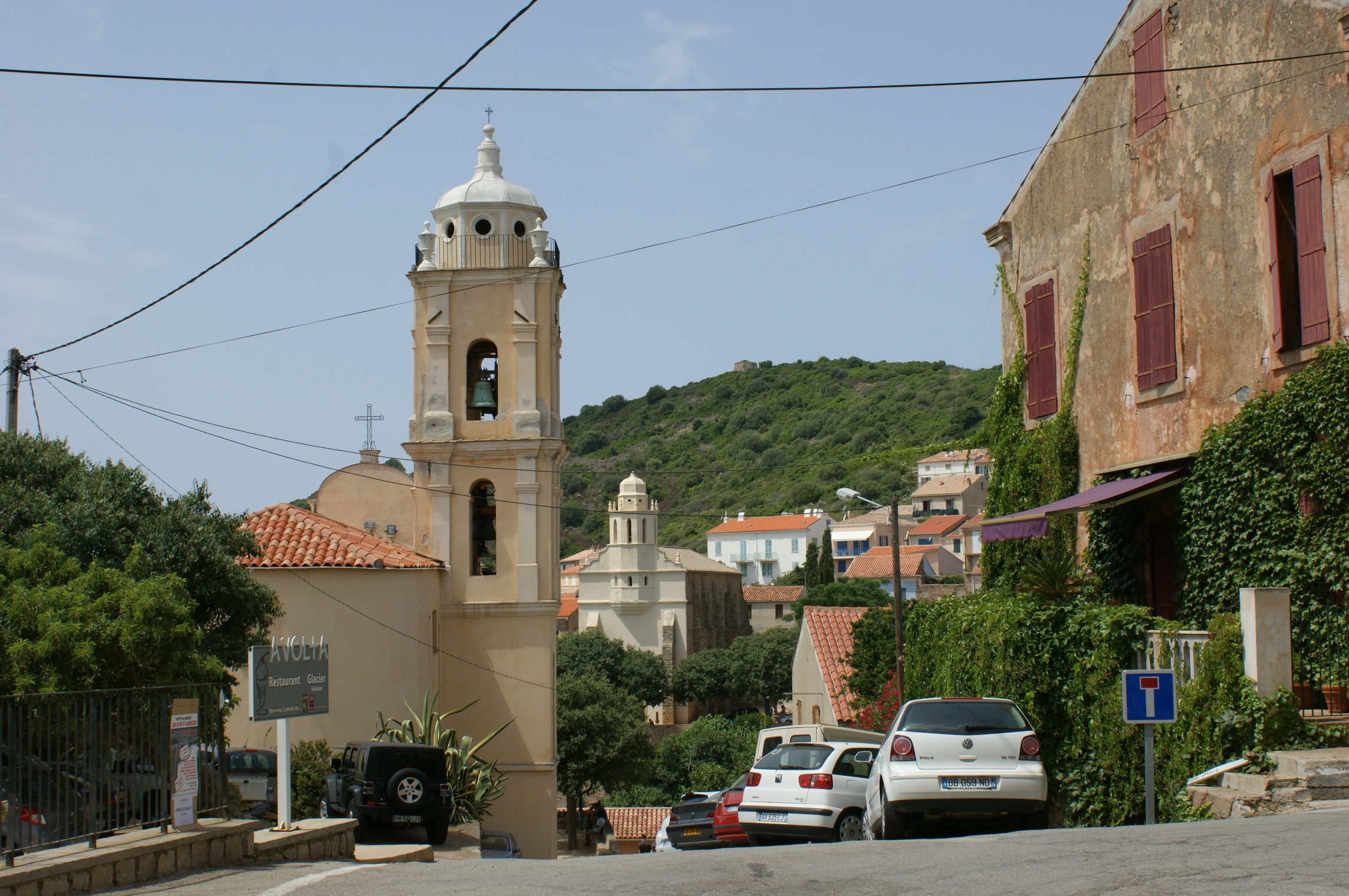 The Roman Catholic church (foreground) facing the Greek Orthodox church (background).